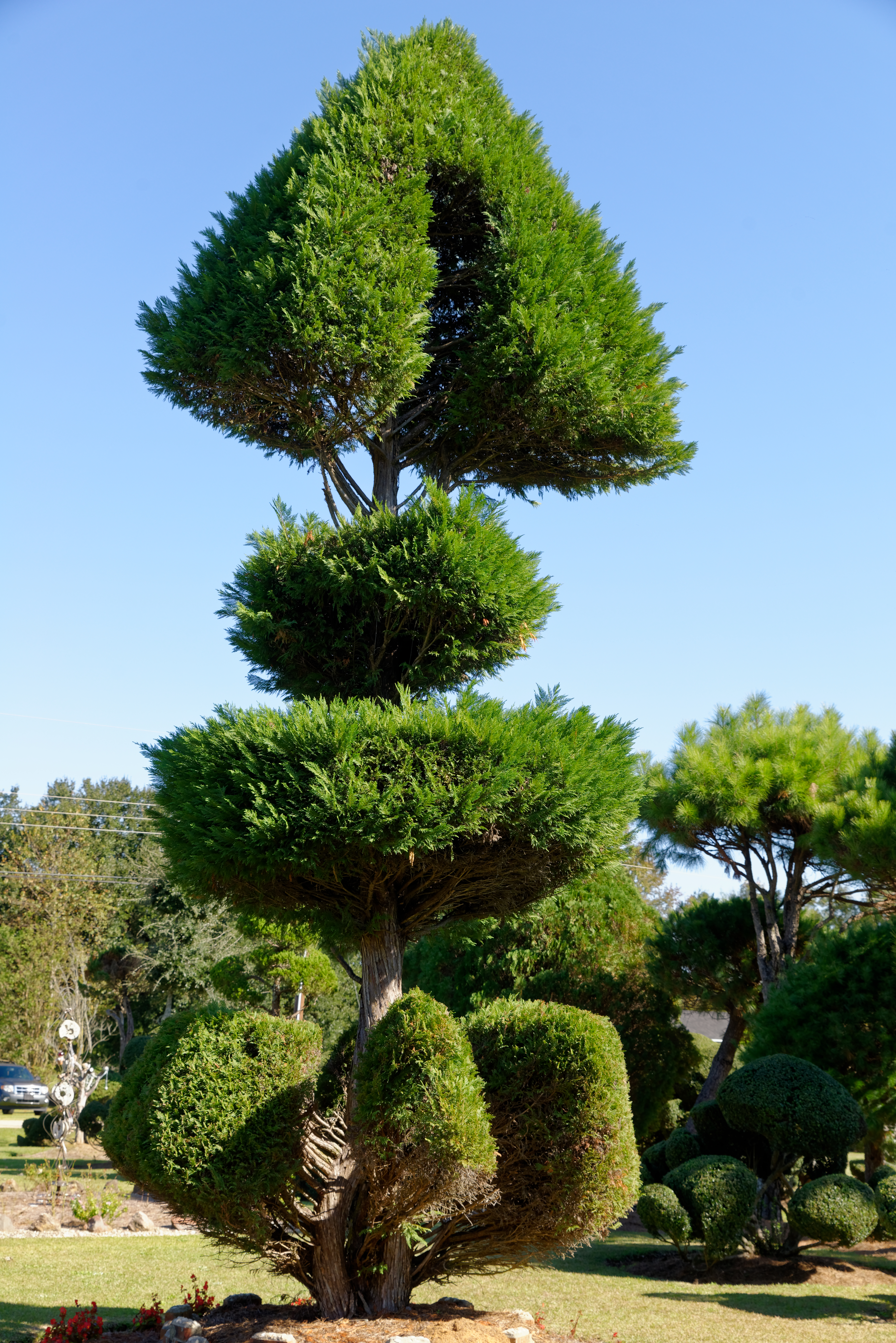 Topiary Garden by Pearl Fryar, Bishopville, South Carolina, U.S.